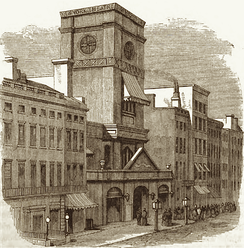 Looking east and south on Broadway opposite Waverly Place, in New York City. Built as a church, this theatre changed names many times, as listed below; for details, see Brown, Thomas Allston A History of the New York Stage, Vol. 2, pp. 376 (“The Athenæum”) - 398 (Dodd, Mead and Company; New York; 1903) 1839 The Church of the Messiah 1865 Athenaeum (A. T. Stewart, owner) 1865 Lucy Rushton’s Theatre 1866 New York Theatre (Lewis Baker and Mark Smith, managers) 1867 The Worrell Sisters’ New York Theatre 1868 New York Theatre 1868 The Worrell Sisters’ Theatre 1870 The Globe Theatre 1871 Nixon’s Amphitheatre 1872 The Broadway Theatre 1873 Daly’s Fifth Avenue Theatre (Augustin Daly, manager) 1873 Daly’s Broadway Theatre 1874 Fox’s Broadway Theatre 1874 The Globe Theatre 1876 Heller’s Wonder Theatre 1877 Wood’s Theatre 1877 Neil Bryant’s Opera House 1877 National Theatre 1878 The Globe Theatre 1879 The New York Circus 1879 The Broadway Novelty Theatre 1881 The New Theatre Comique (Harrigan and Hart, proprietors) 1884 (Destroyed by fire)